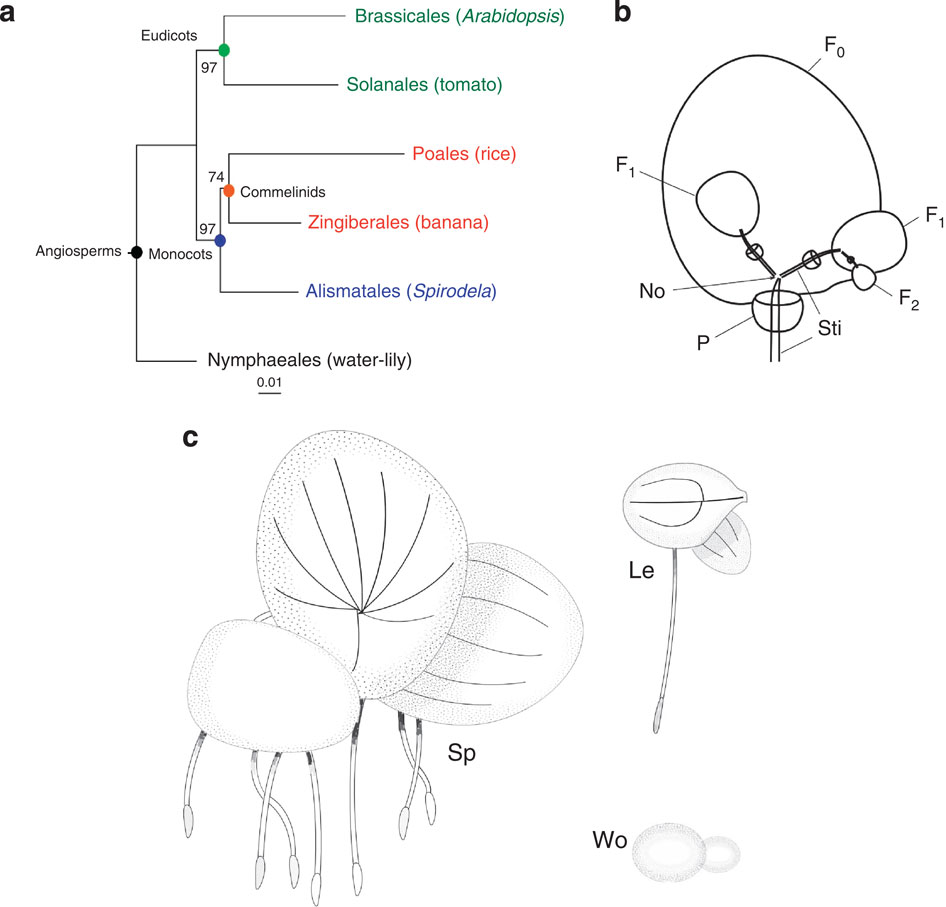 Duckweeds belong to the order Alismatales and the Araceae family, an early branch-off from the monocotyledonous crown ancestor. In agreement with previous classifications70, (a) shows a phylogenetic tree of plastid-rbcL (ribulose-1, 5-bisphosphate carboxylase large-subunit) genes of two dicots—Arabidopsis thaliana (Brassicales, NC_000932.1) and tomato (Solanales, NC_007898.2); three monocots Spirodela polyrhiza (Alismatales, NC_015891.1), rice (Poales, NC_001320.1) and banana (Zingiberales, EU017045.1), and water-lily as an outgroup (Nuphar advena, Nymphaeales, NC_008788). (b) shows a ventral view of Spirodela, illustrating schematically the clonal, vegetative propagation of duckweeds (redrawn and simplified from Landolt). Daughter fronds (F1) originate from the vegetative node (No), from the mother frond F0 and remain attached to it by the stipule (Sti), which eventually breaks off, thereby releasing a new plant cluster. Daughter fronds may already initiate new fronds (F2) themselves before full maturity. Roots are attached at the prophyllum (P). (c) illustrates the progressive reduction from a leaf-like body with several veins and unbranched roots to a thallus-like morphology in the Lemnoideae, redrawn after historical illustrations ‘Das Pflanzenreich’ from Sp: Spirodela polyrhiza, Le: Lemna minor, Wo: Wolffia arrhiza.